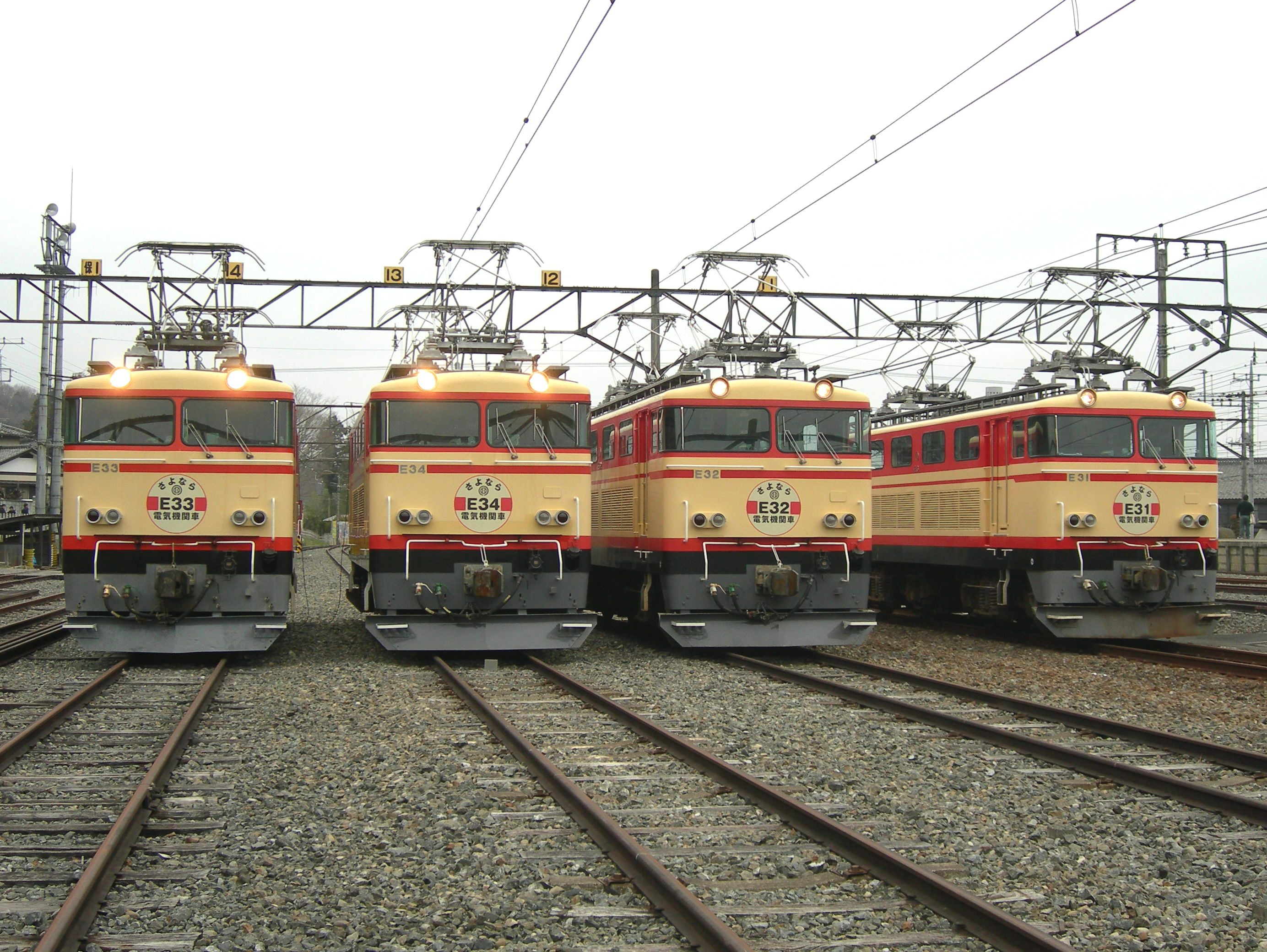 Lineup of all four Seibu Class E31 electric locomotives at Yokoze Depot Open Day